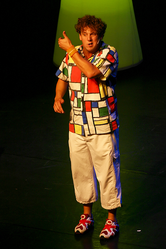 Jochem Myjer (Leiden, 22 april 1977) is a Dutch comedian